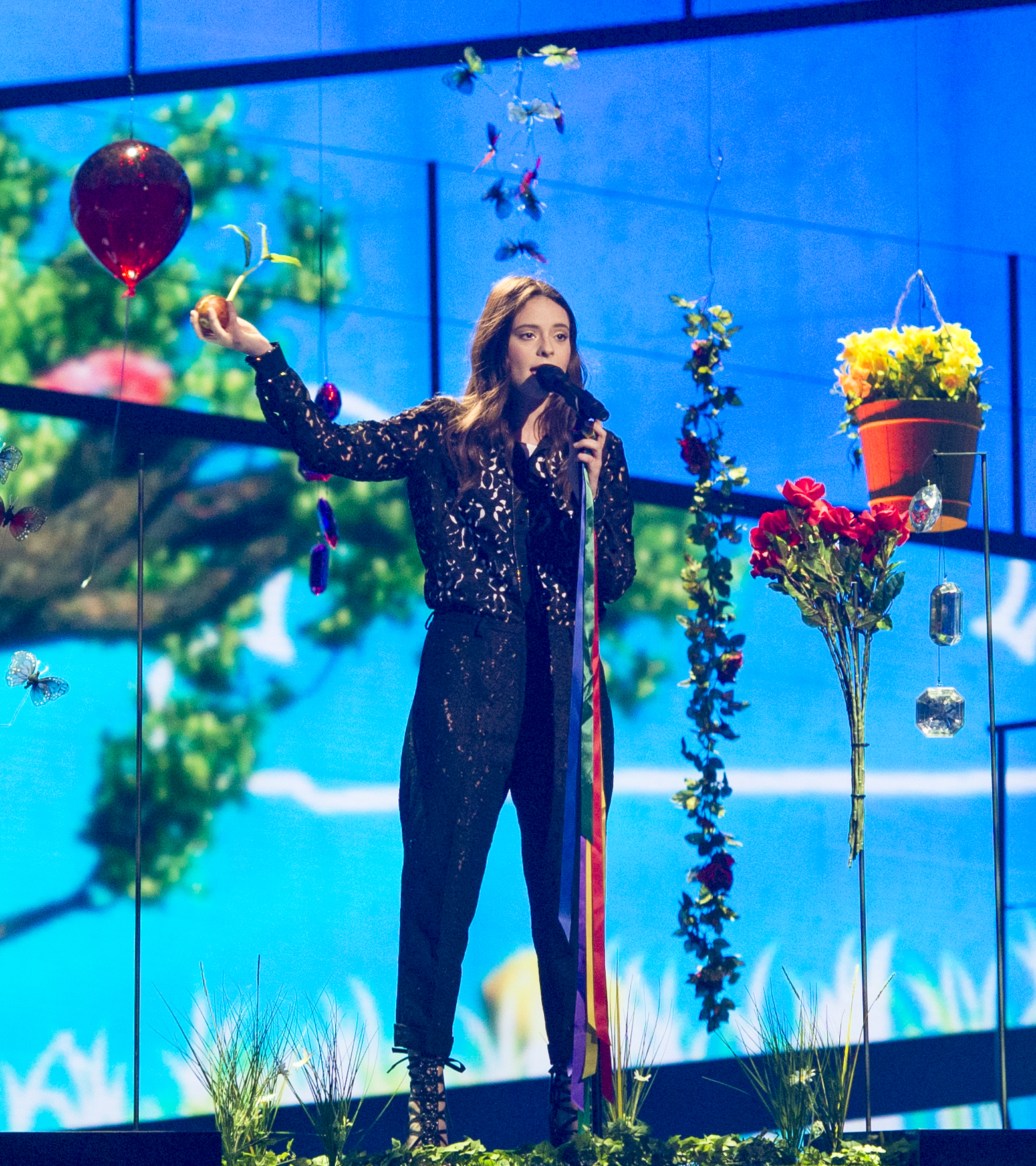 Francesca Michielin representing Italy with the song "No Degree Of Separation" during a rehearsal for "the Big Five" in the Eurovision Song Contest 2016 in Stockholm. (Help translate this text)